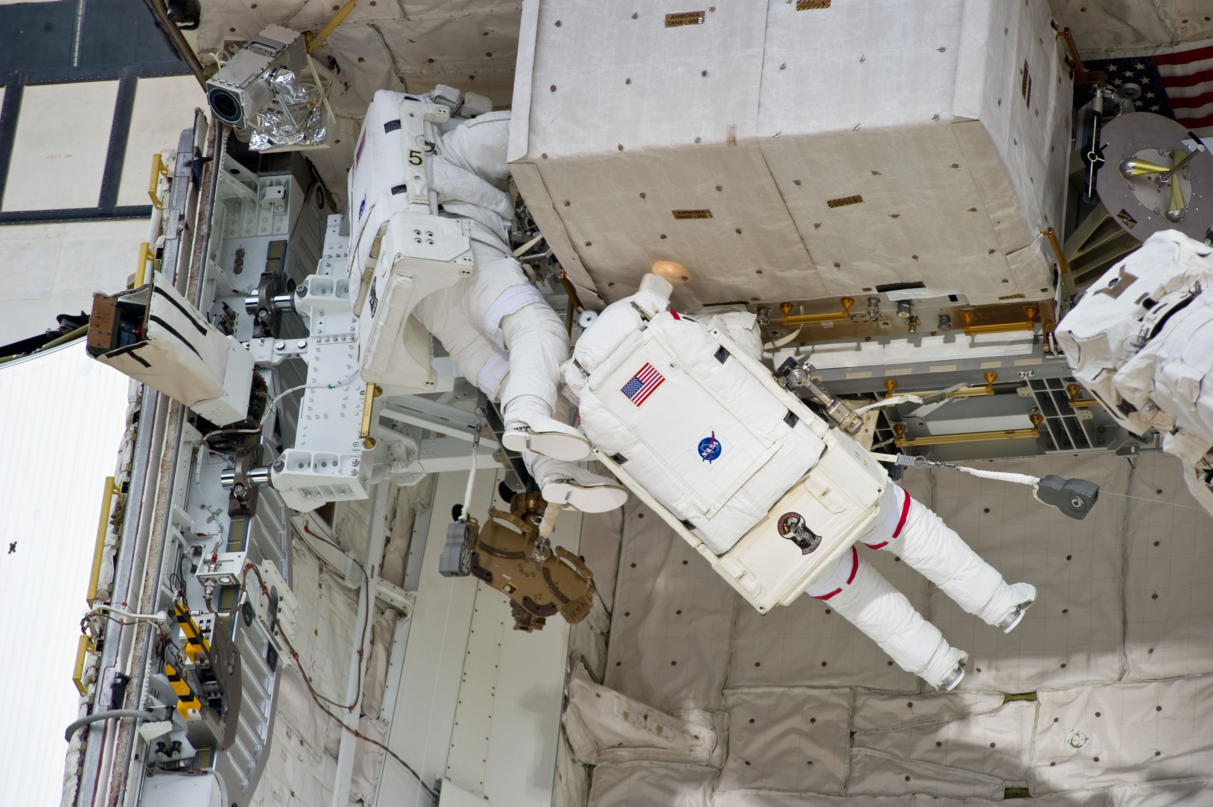 NASA astronauts Rick Mastracchio (right) and Clayton Anderson, both STS-131 mission specialists, participate in the mission's third and final session of extravehicular activity (EVA) as construction and maintenance continue on the International Space Station. During the six-hour, 24-minute spacewalk, Mastracchio and Anderson hooked up fluid lines of the new 1,700-pound tank, retrieved some micrometeoroid shields from the Quest airlock's exterior, relocated a portable foot restraint and prepared cables on the Zenith 1 truss for a spare Space to Ground Ku-Band antenna, two chores required before space shuttle Atlantis' STS-132/ULF-4 mission in May.